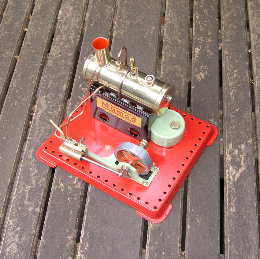 A Mamod SE2 steam engine from 1958, showing the engine in its transitional form with new 1958 firebox and old 3-wick green lamp.